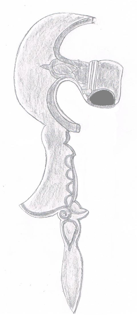 Indian-Battle-Axe